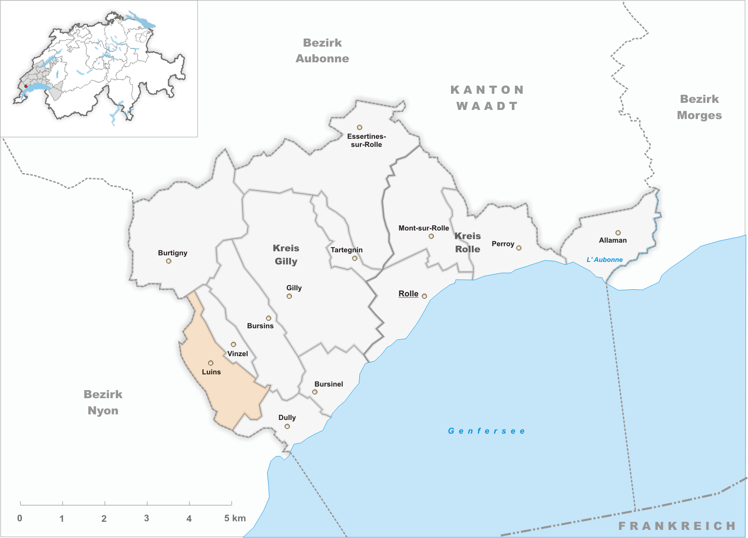 Municipality Luins